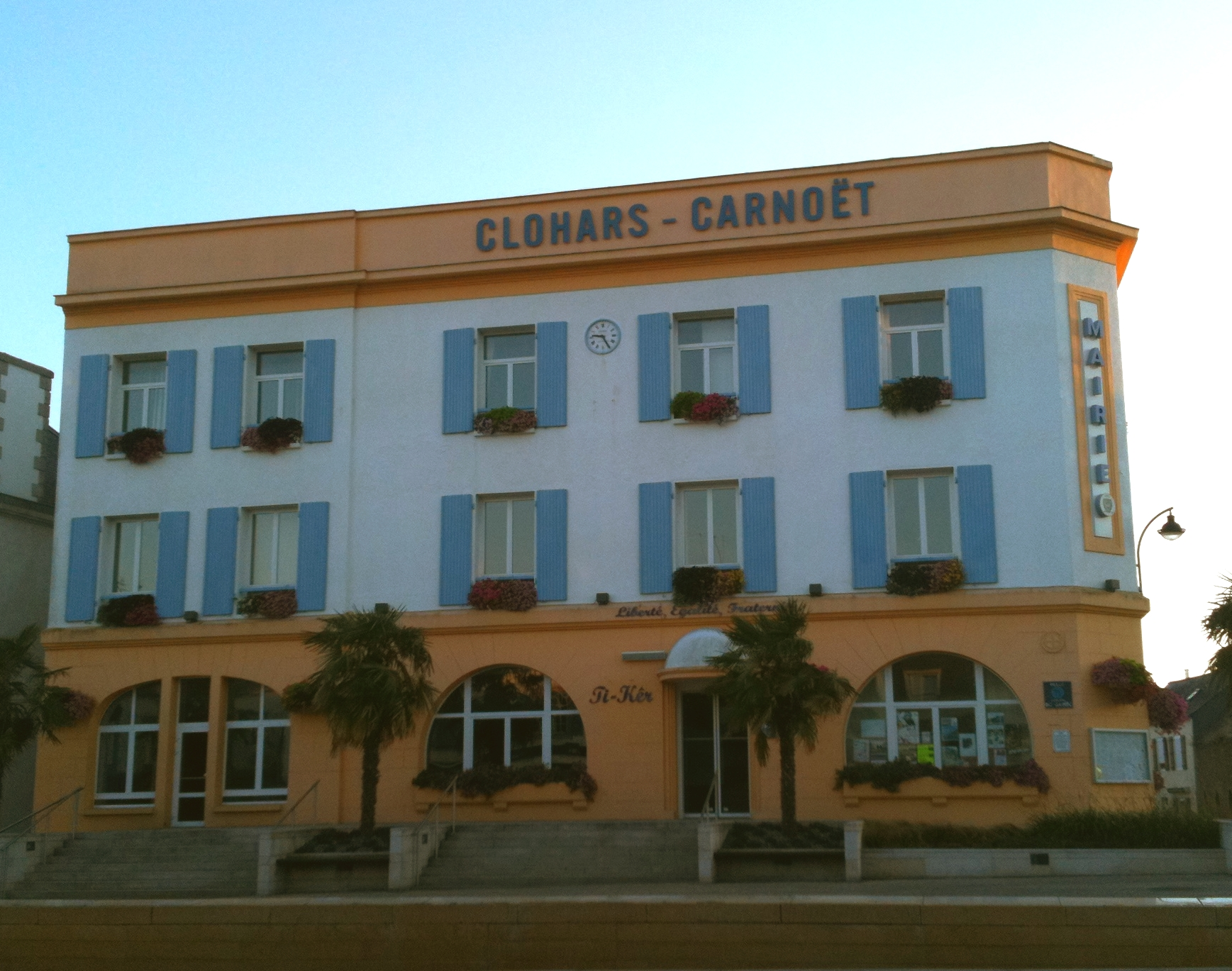 Town Hall of Clohars-Carnoët